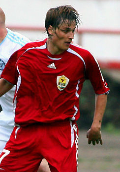 Maksim Kreisman in action for FC Chita